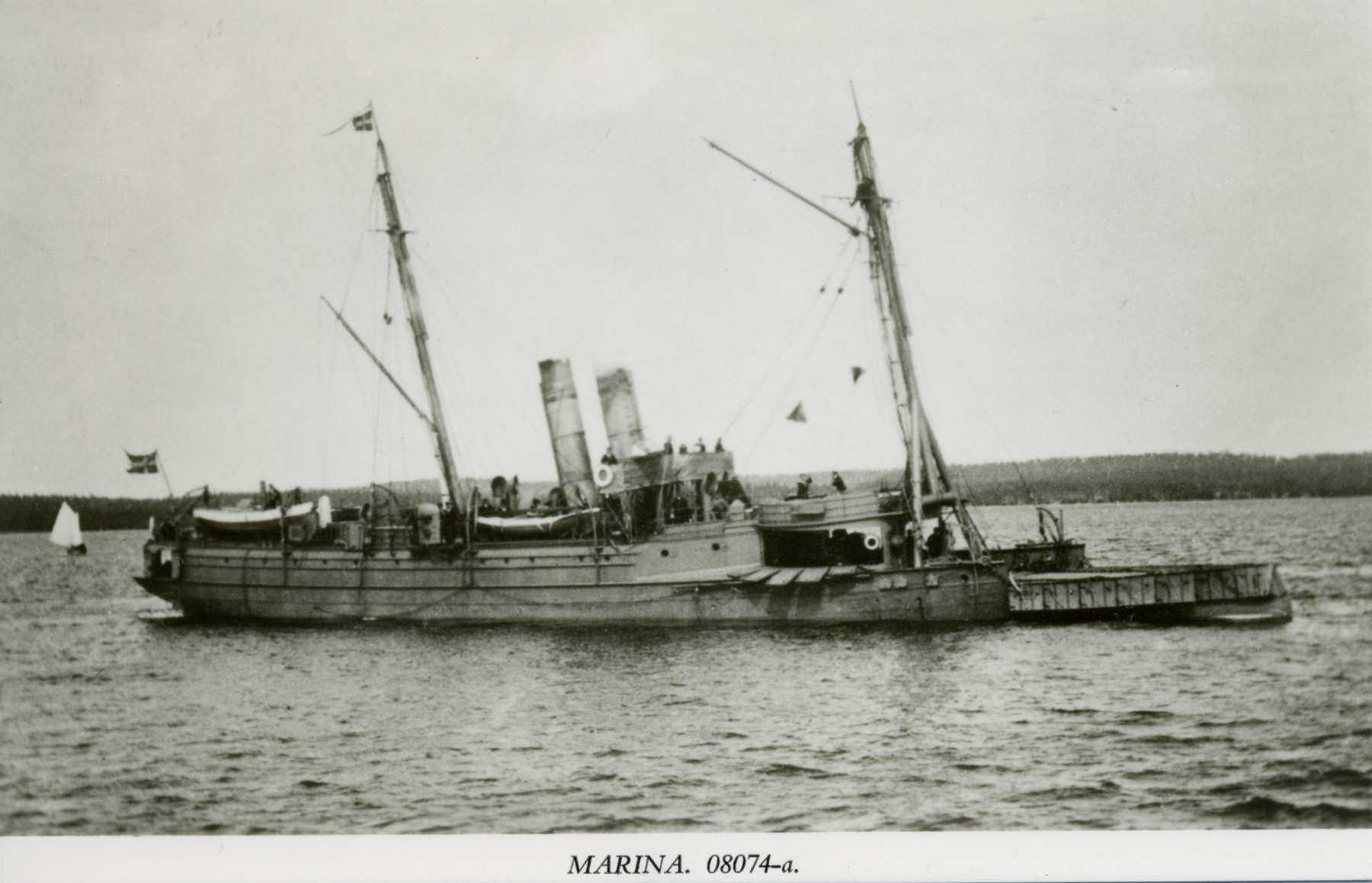 The Swedish gunboat HMS Verdande ready for battle. From Curt S. Ohlsson's collections.